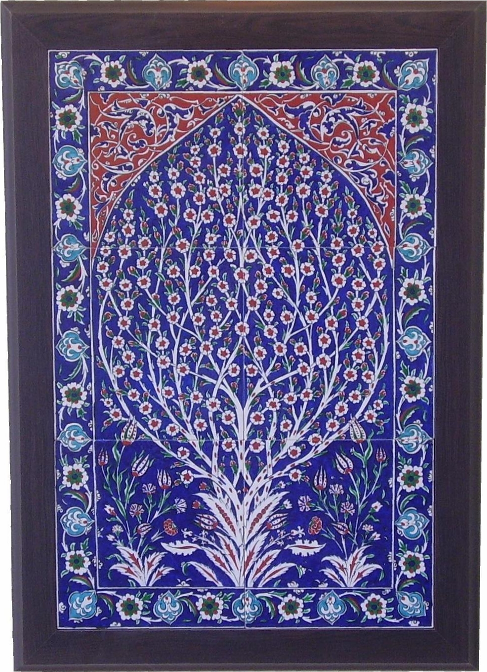 Blue Turkish Tiles in Frame. Plants in Ottoman Empire art.